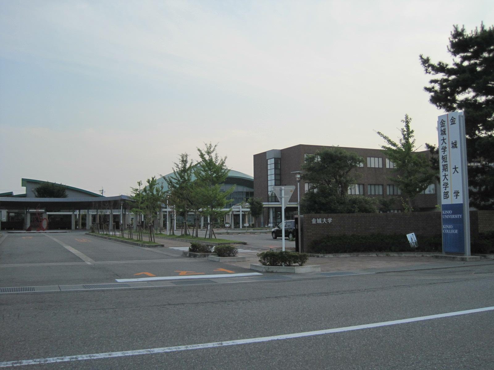 Kinjyo University(Hakusan city, Ishikawa prefecture)